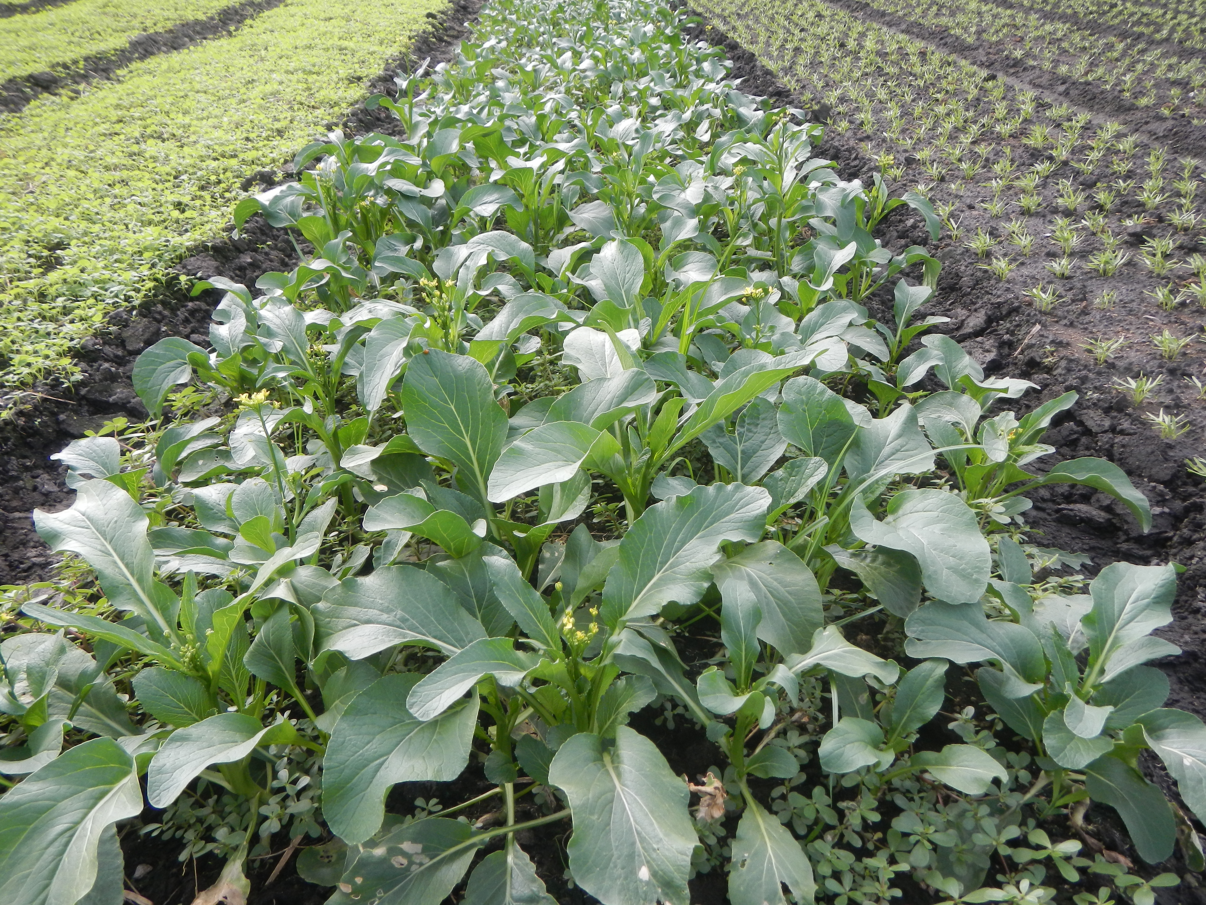 Vegetable plantations in Pulilan, Bulacan including the Ipomoea aquatica Ipomoea aquatica Kangkong Tsina LP Kangkong Ipomoea aquatica Forsk. Convolvulus reptans Linn. Bok choy Brassica rapa subsp. chinensis or Brassica rapa subsp. chinensis var. parachinensis Gai Lan Kai-lan Kailan Kena brocolli leaves broccoli cultivated for the leaves Chinese broccoli; Spinacia oleracea Spinach fields in Barangay Taal, Pulilan, Bulacan Vegetable plantations from the Pulilan-Baliuag interior National Road and towards along Pan-Philippine Highway, also known as the Maharlika "Nobility/freeman" Highway in Cagayan Valley Road (Note: Judge Florentino Floro, the owner, to repeat, Donor Florentino Floro of all these photos hereby donate gratuitously, freely and unconditionally all these photos to and for Wikimedia Commons, exclusively, for public use of the public domain, and again without any condition whatsoever).